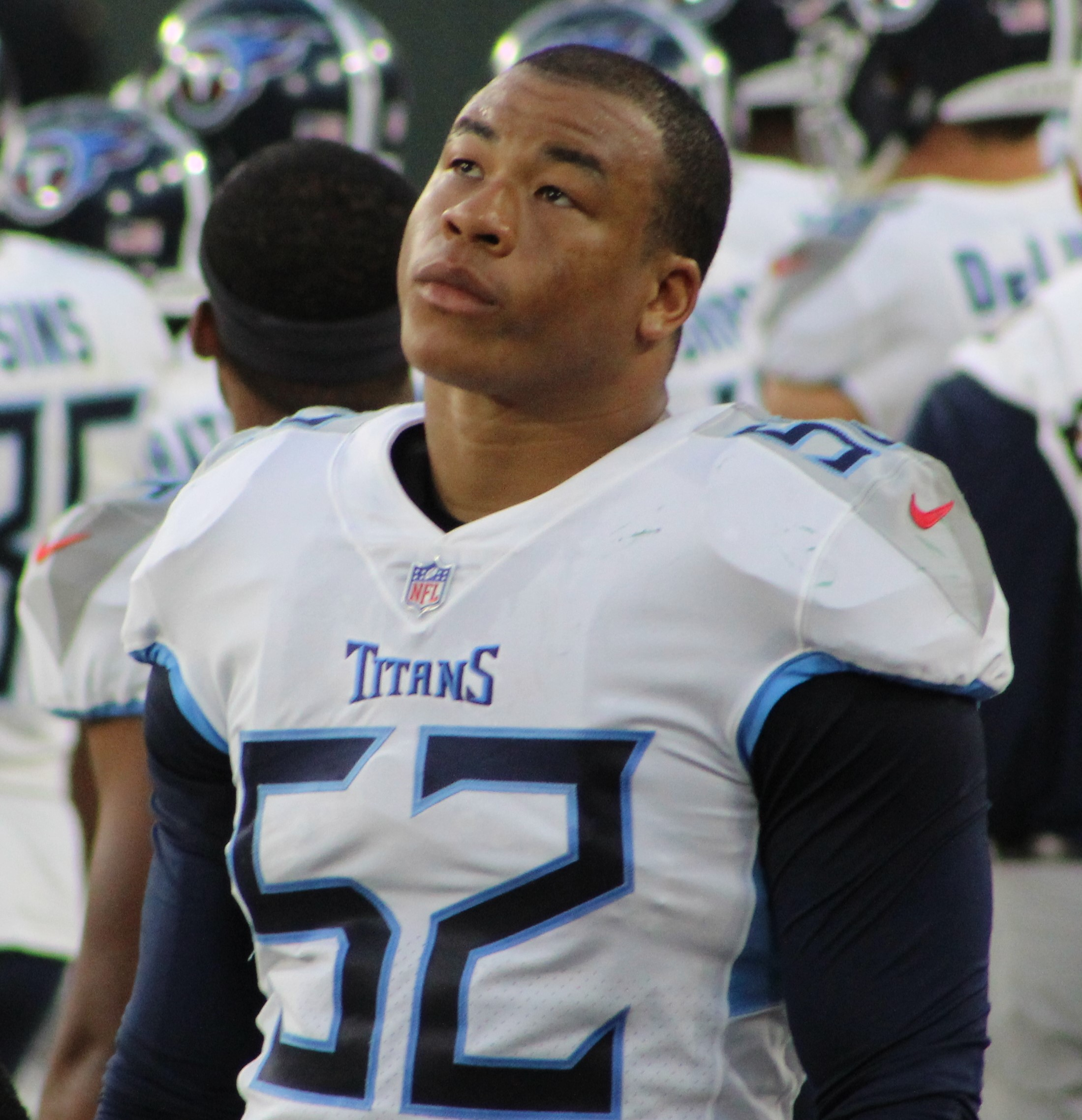 Aaron Wallace, Tennessee Titans at Green Bay Packers (Preseason), August 9, 2018